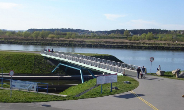 The white-water course in Cracow